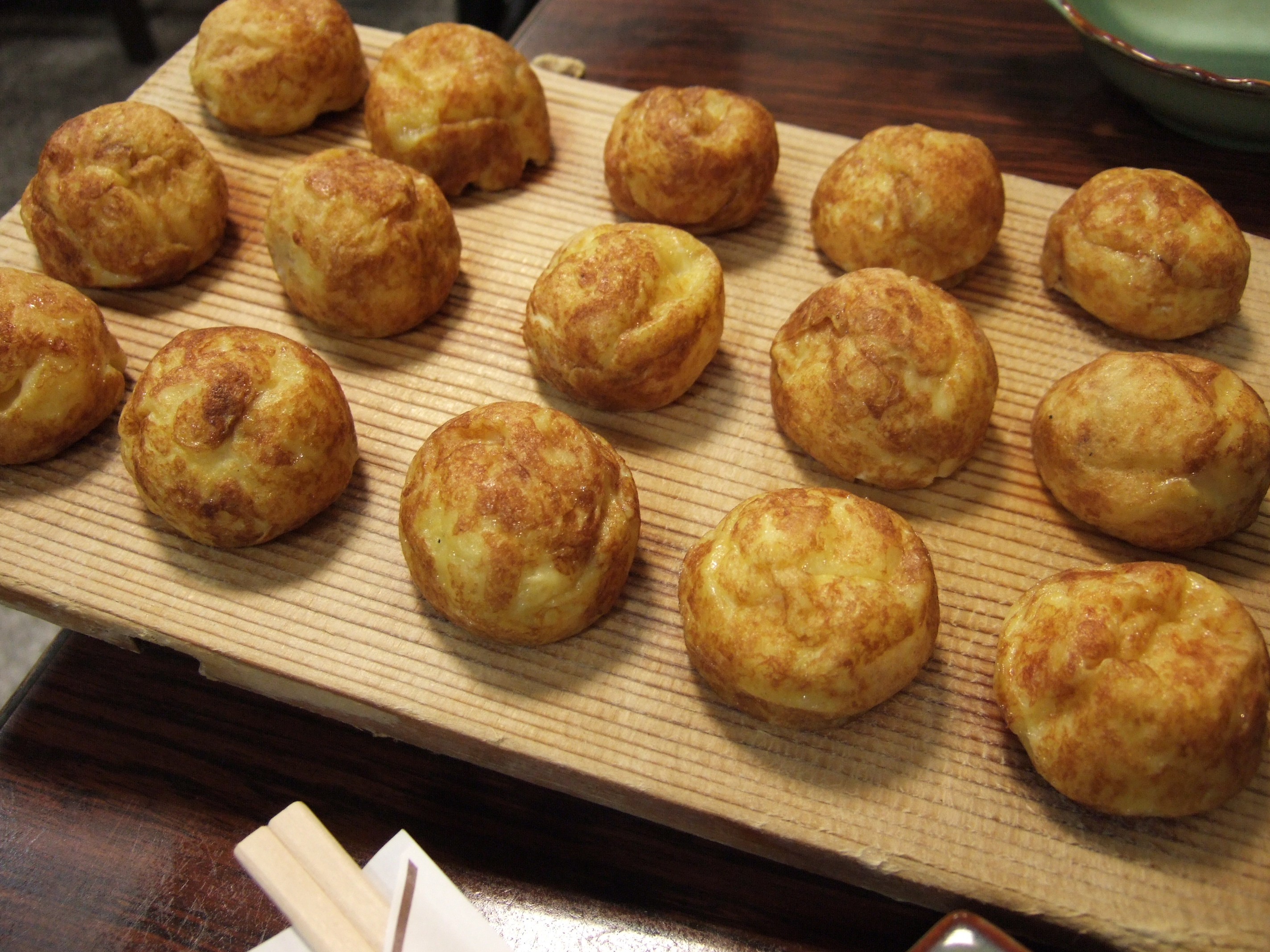 Akashiyaki